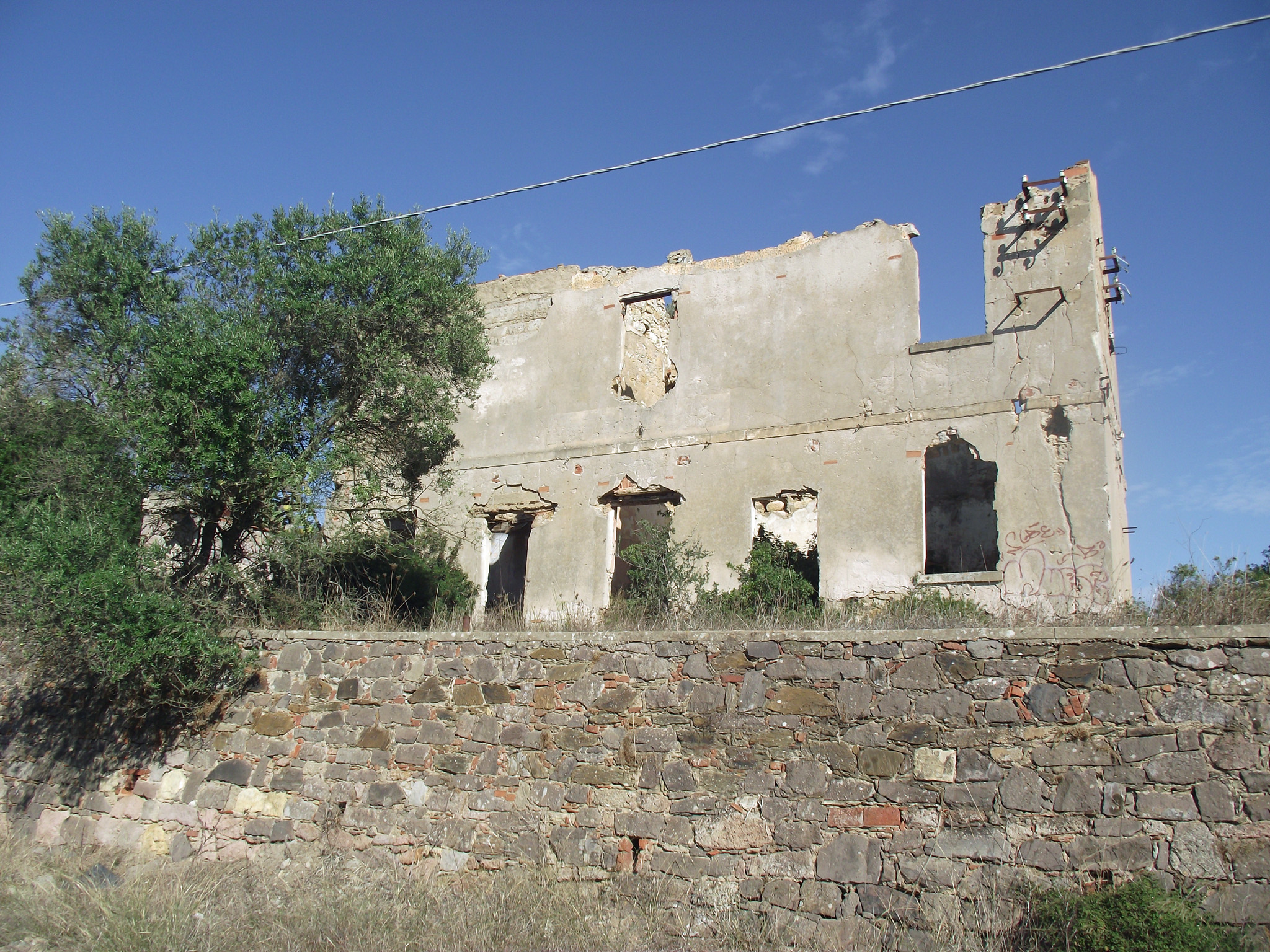 The ruins of the passenger building of the former train station of Bacu Abis, Carbonia, Sardinia, Italy